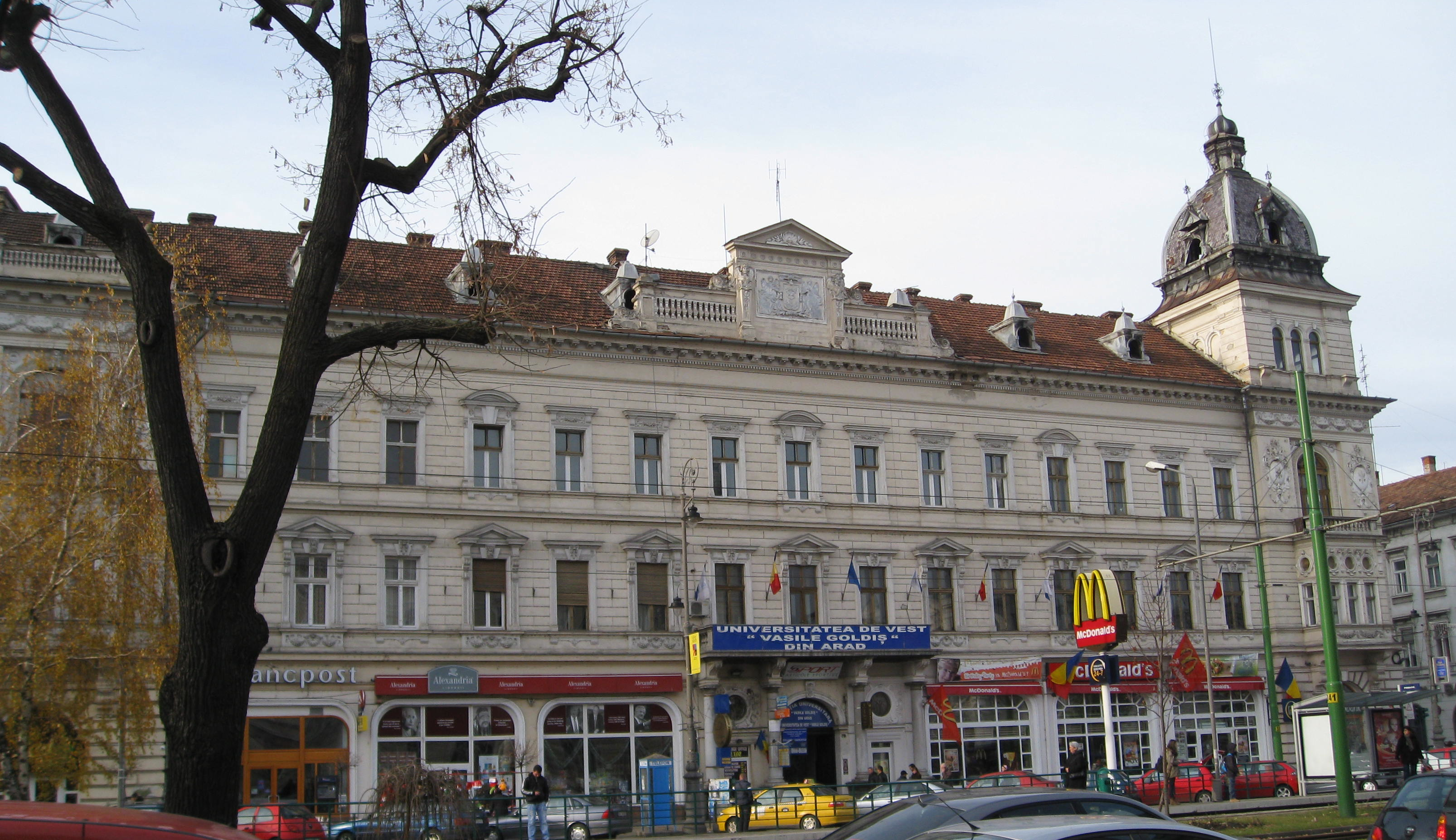 Vasile Goldiş West University of Arad